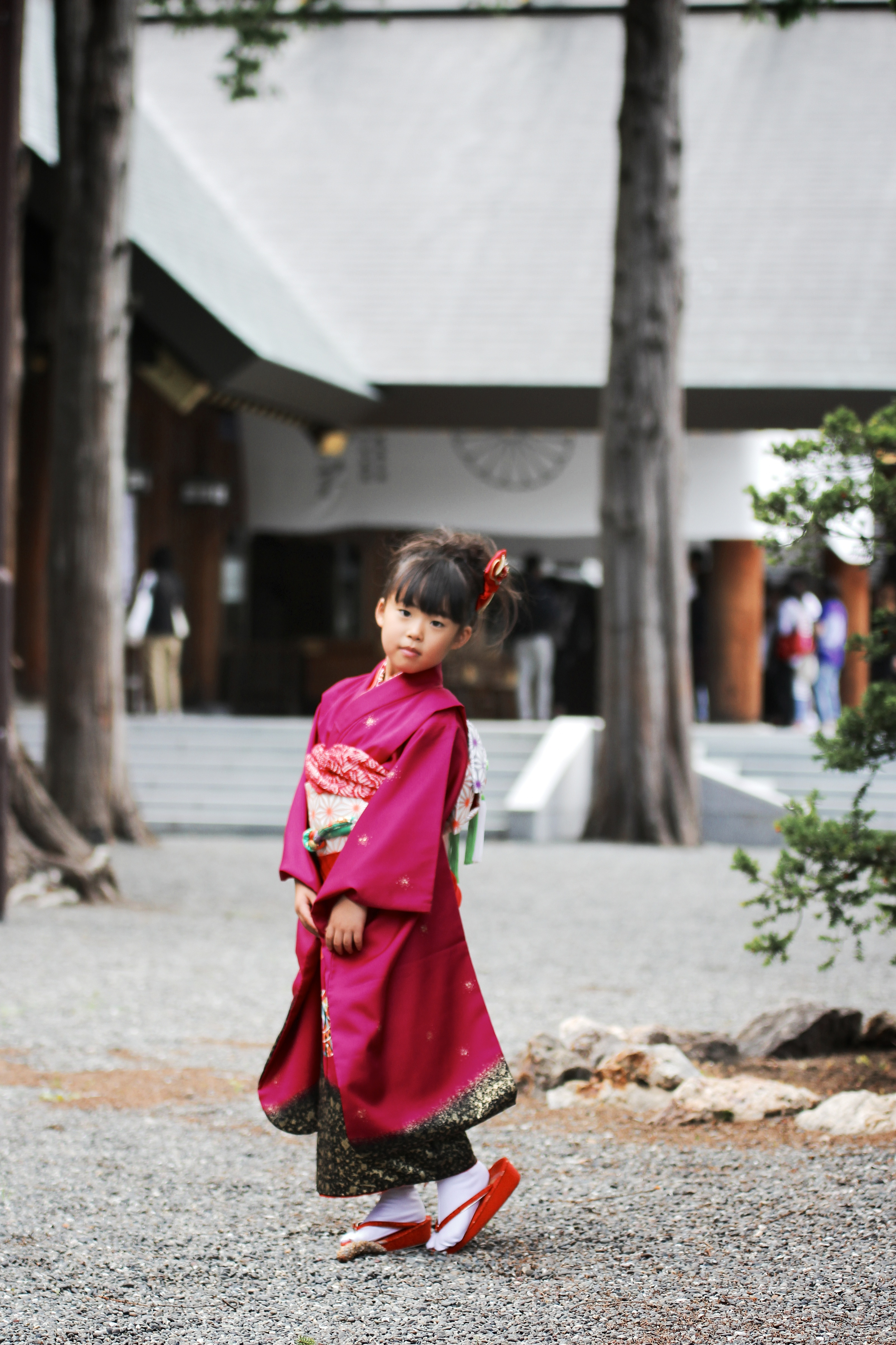 A girl at Shichi-go-san festival, Japan, 2015.